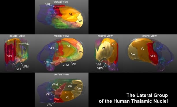 Human Thalamic Nuclei (Lateral Group)